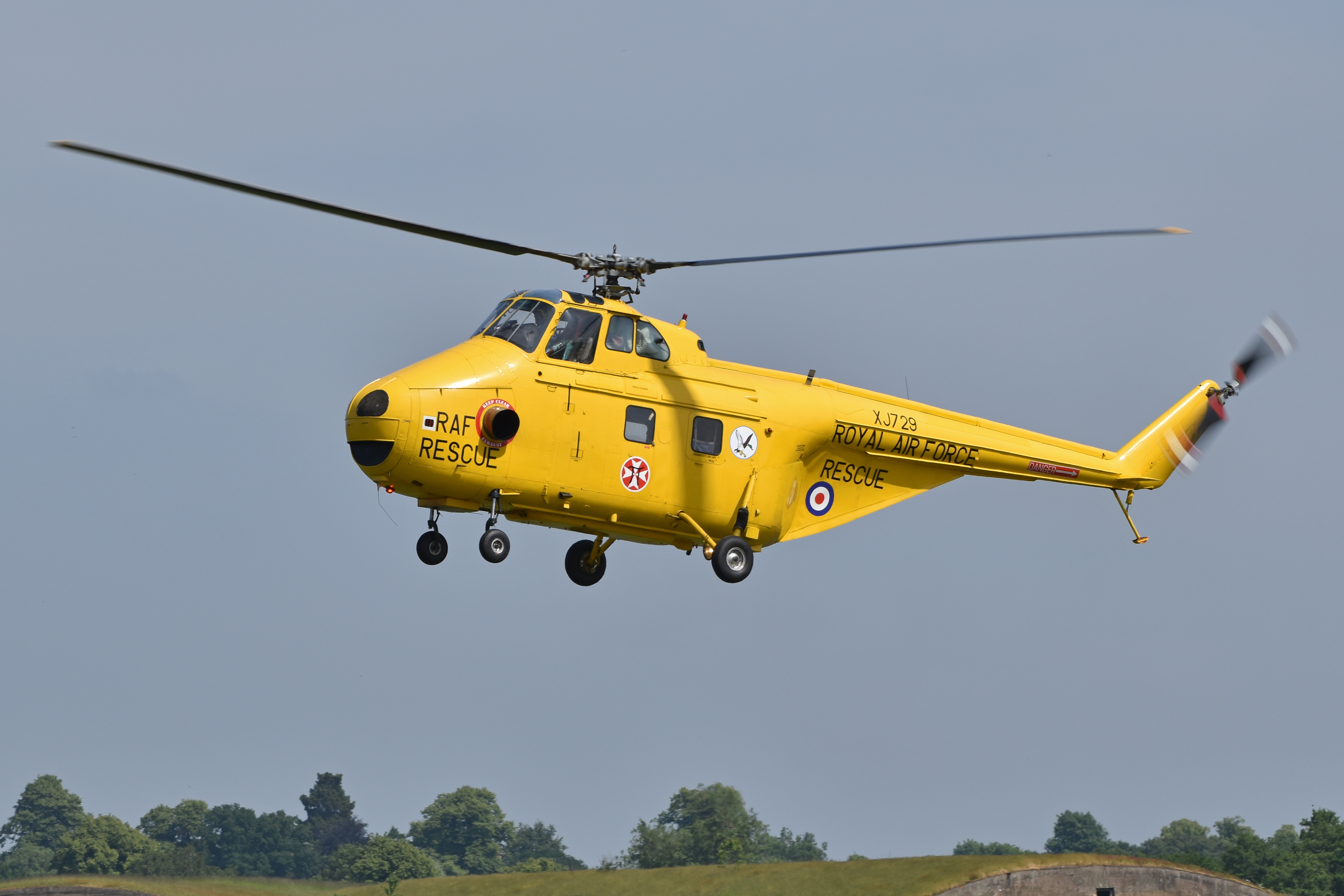 c/n WA.100 Built 1956. Operated in original 22sqn markings by Andrew Whitehouse under the 'Historic Helicopters' banner. She is seen displaying at the 2018 Cosford Airshow. RAF Cosford, Shropshire UK. 10th June 2018